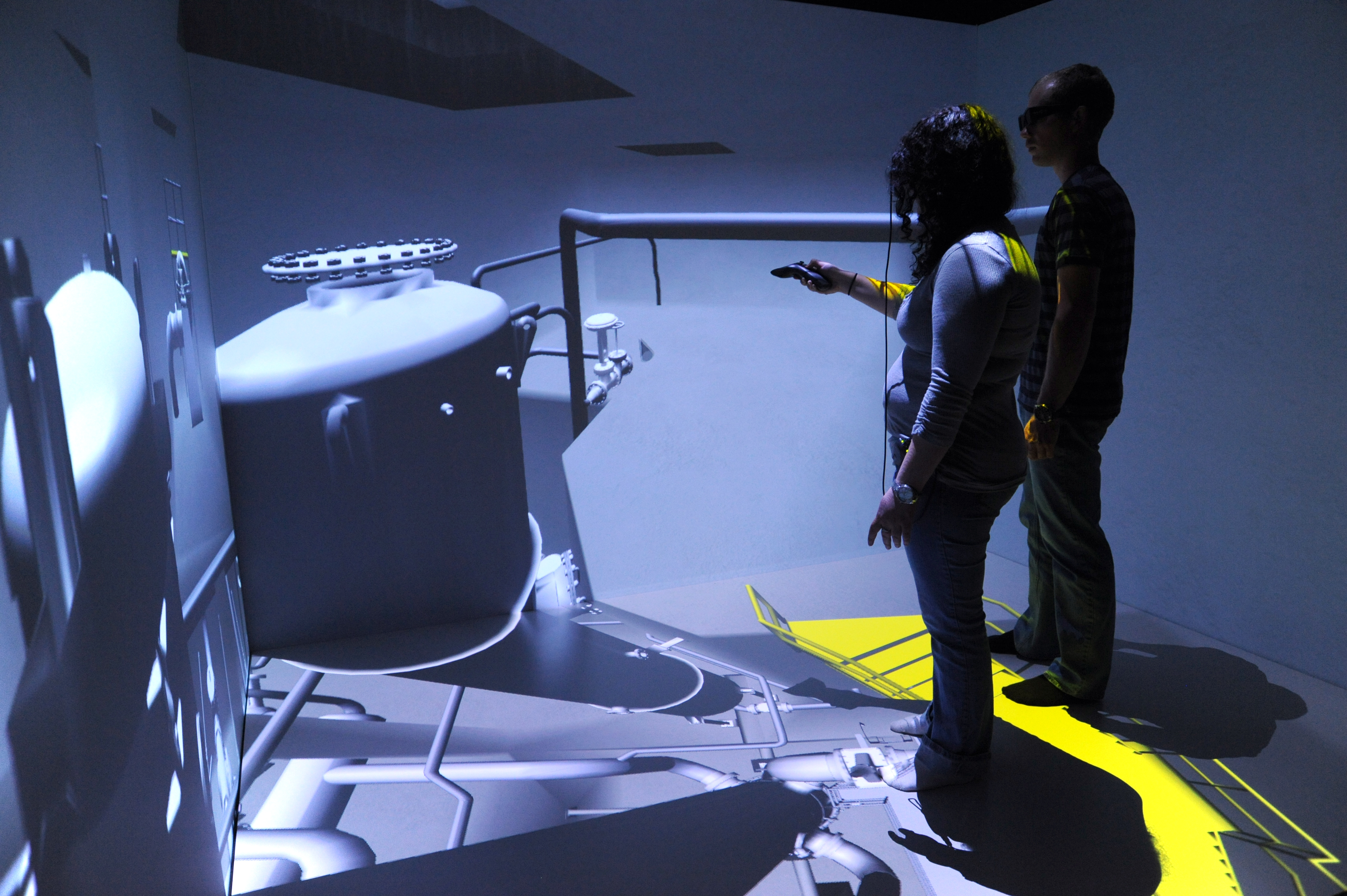 Engineering teams can use the CAVE at INL's Center for Advanced Energy Studies to tour a virtual nuclear reactor, train staff, orient subcontractors and consider new designs.